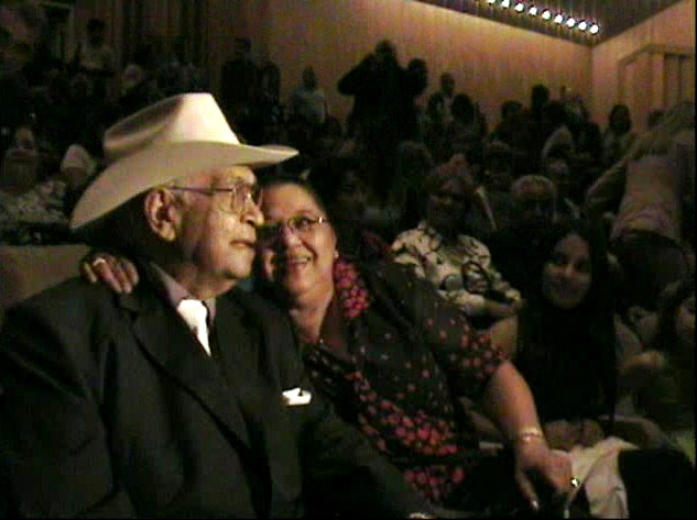 Juan Vicente Torrealba and his wife Mirtha de Torrealba